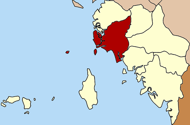 Map of Satun Province, Thailand, highlighting the district La-ngu (อำเภอละงู)